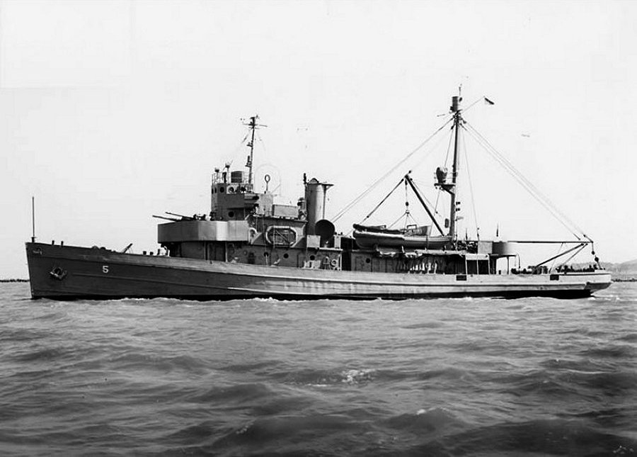 Teal off the Mare Island Navy Yard on 9 July 1942. National Archives photo 19-N-31394 from the Naval History and Heritage Command